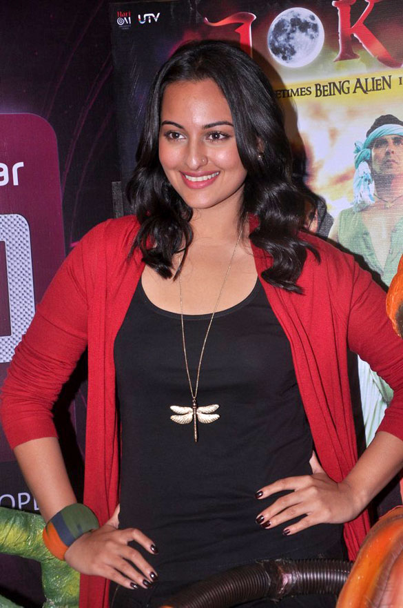 Sonakshi Sinha promotes 'Joker'